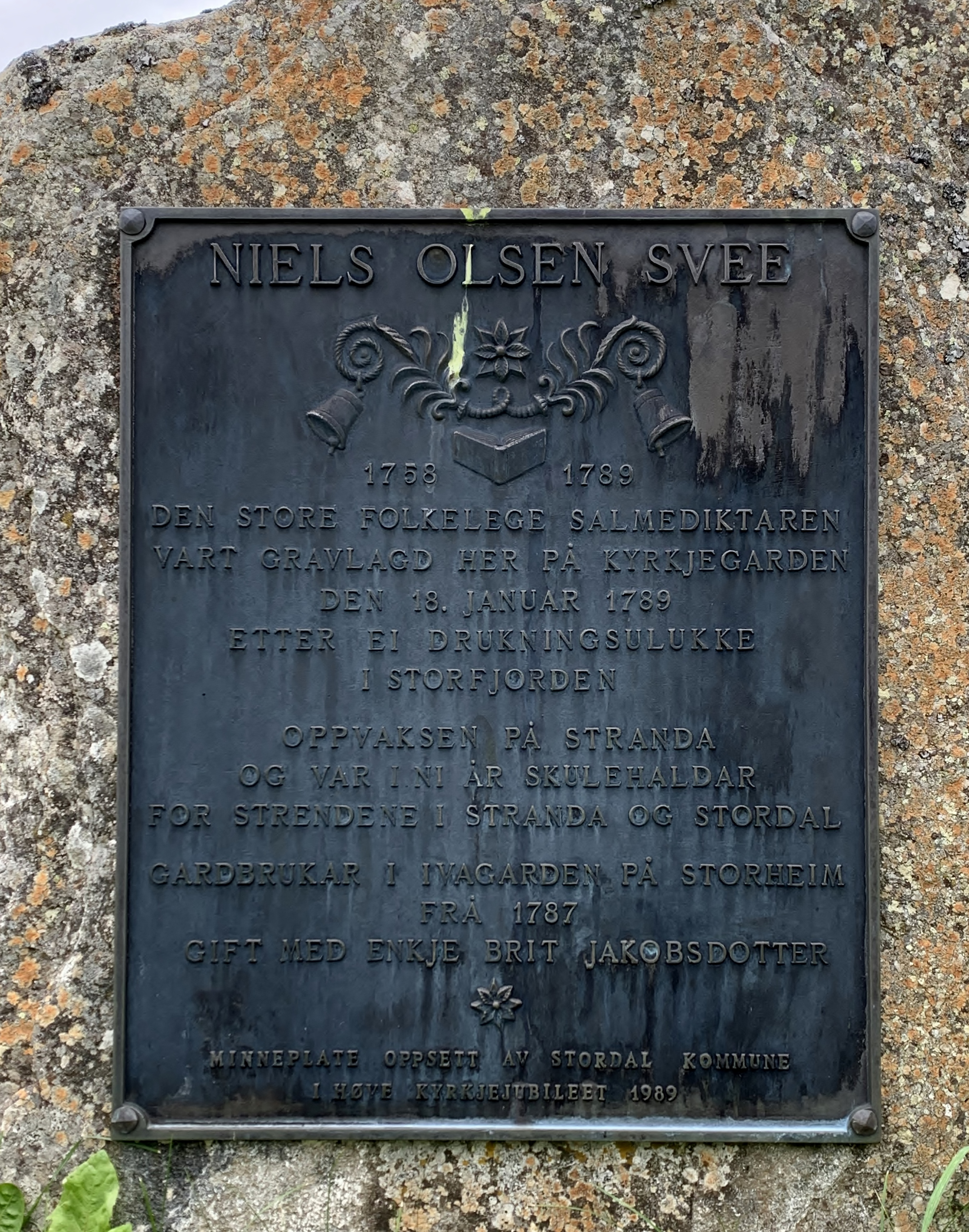 Gravestone of hymn poet Niels Olsen Svee